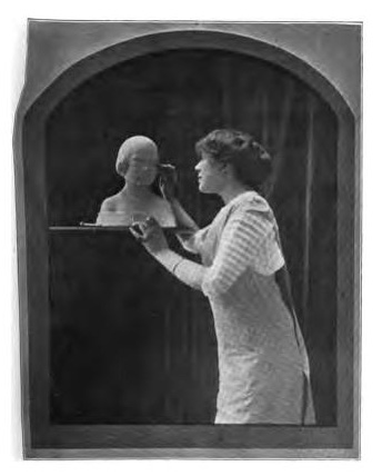 Photograph of Sculptor Nancy M. Cox-McCormack from the book The Cox family in America : a history and genealogy of the older branches of the family from the appearance of its first representative in this country in 1610 New York: Printed for the author by the Unionist-Gazette Association, 1912, p. 285 (inset facing) The original caption read as follows: "MRS. NANNIE M. (COX) McCORMACK who was recently awarded contract for the memorial statue of the late U.S. Senator, Edward Ward Carmack of Tennessee."